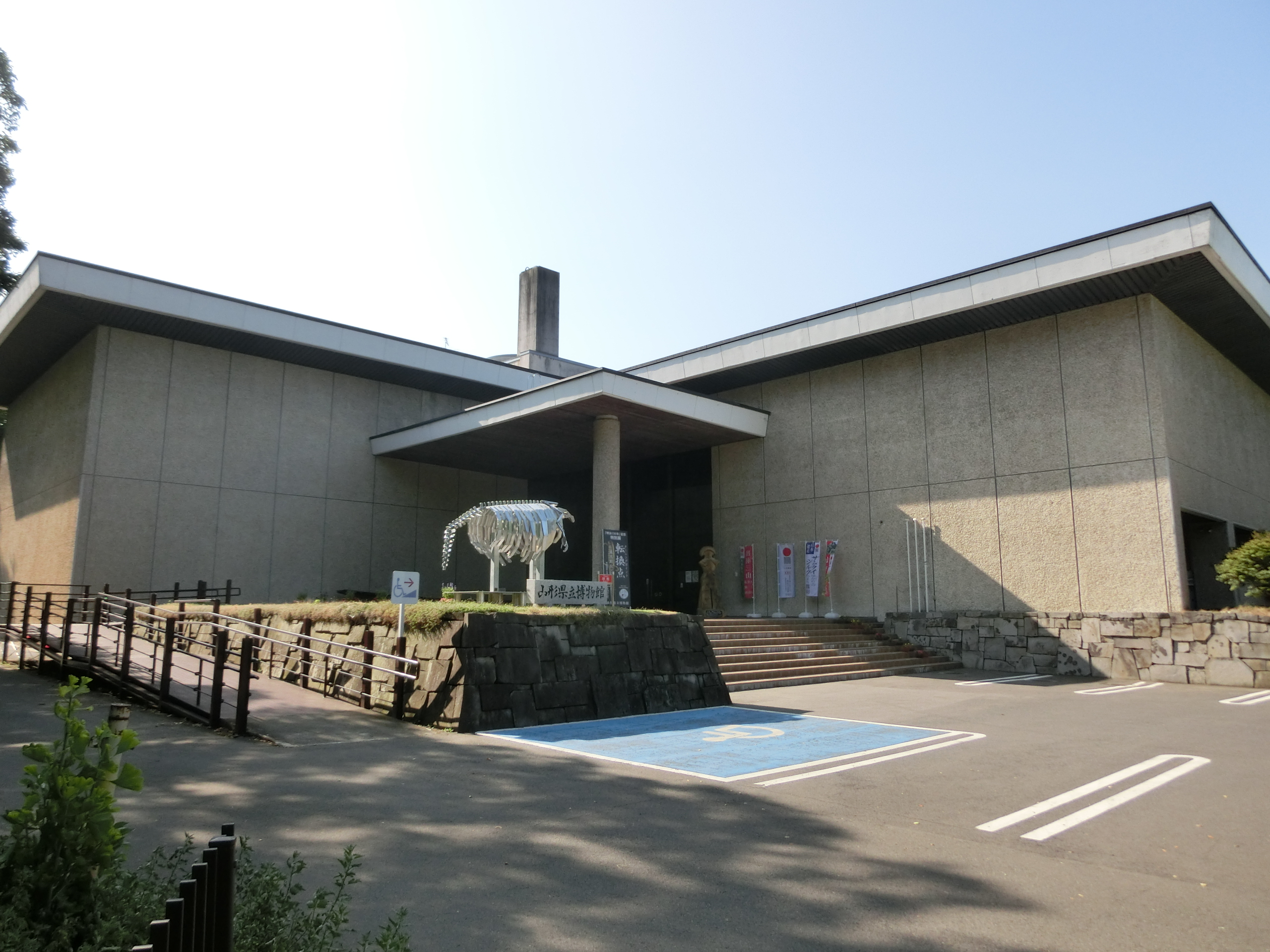 Yamagata Prefectural Museum